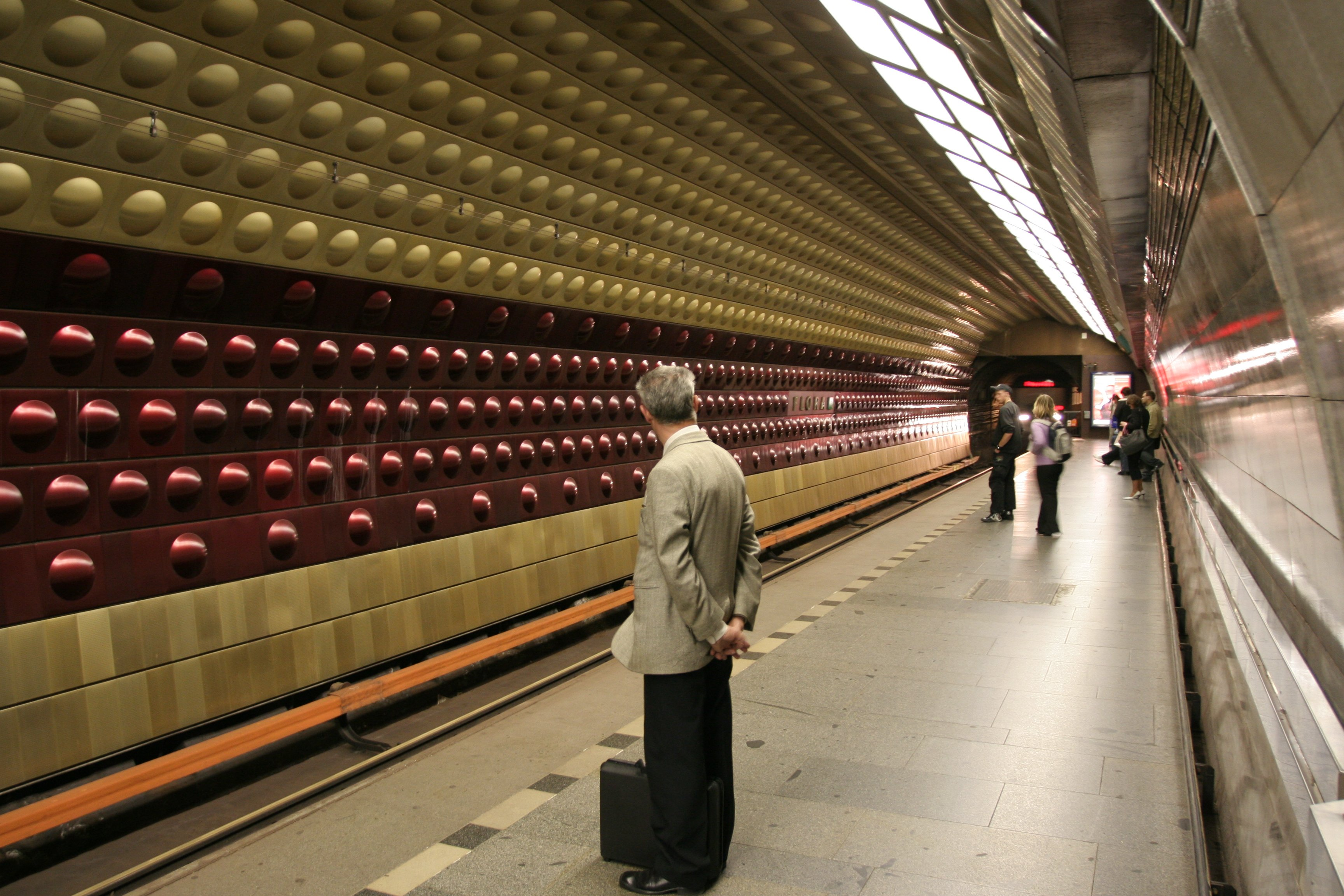 Prague Metro, station Flora, platform